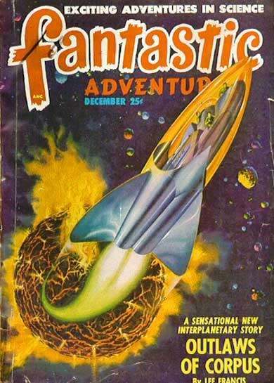 Cover of Fantastic Adventures, December 1948